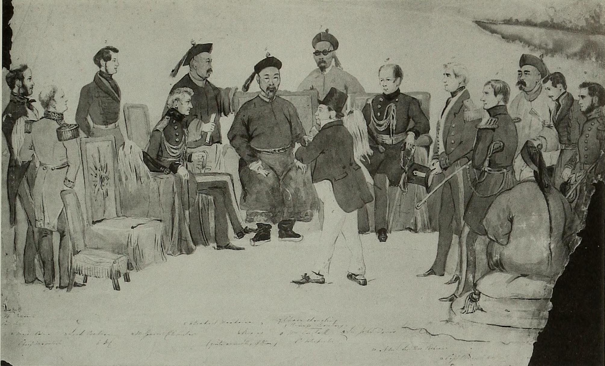 The formal reception of Keying, the Chinese imperial commissioner, by the British authorities in Hong Kong in November 1845. From left to right: The Honble F. M. Bruce [Possibly an incorrect transcription of Frederick Wright-Bruce, colonial secretary of Hong Kong] Major William Caine, chief magistrate Lord Cochrane, aid-de-camp Major-General George D'Aguilar Attendant mandarin Keying Chaou Chongling, Keying's secretary Karl Gützlaff, interpreter Sir John Dent [Appears to be an incorrect transcription of Sir John Davis, governor of Hong Kong] Admiral Sir Thomas Cochrane Captain B... [Possibly Captain John Bruce, assistant adjutant-general] Tung, prefect of Canton Attendant mandarin Inscriptions of last two figures are missing from the right margin